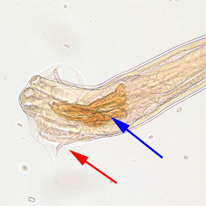 Bursa copulatrix in male worms of Trichostrongylus sp.